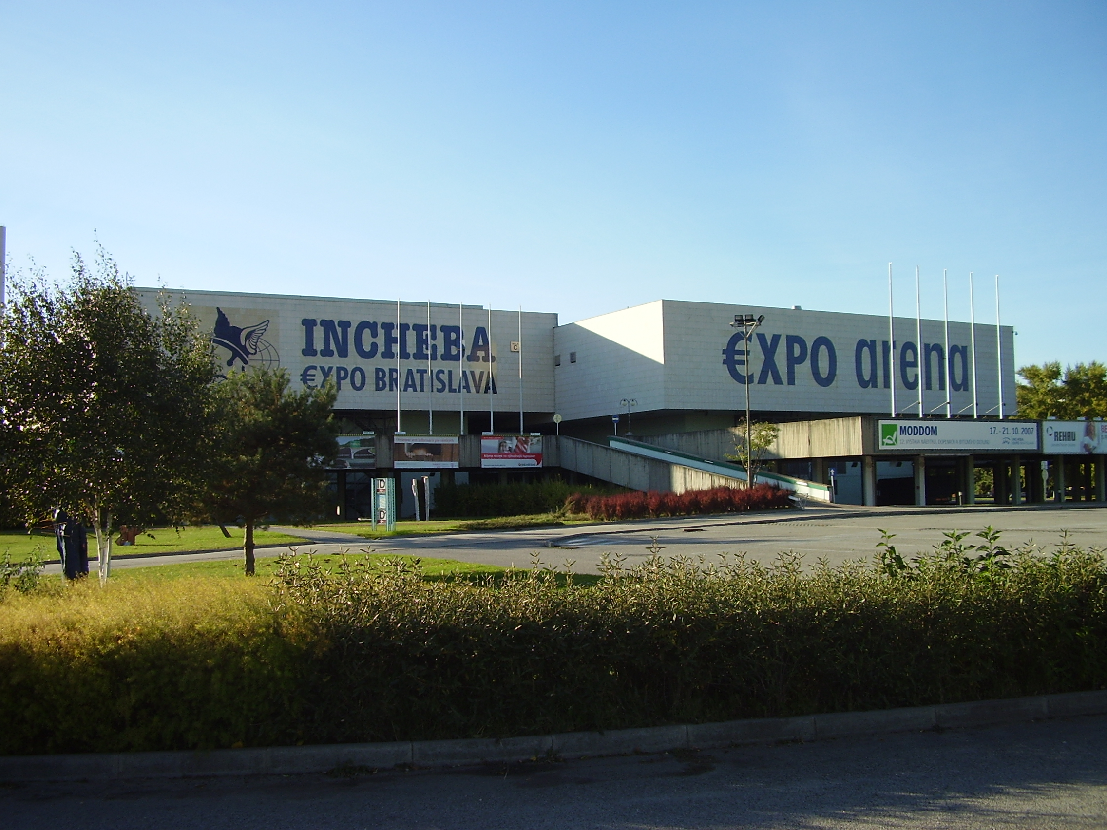 Incheba Expo exhibition hall in Bratislava , Slovakia